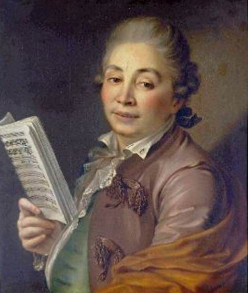 Portrait of 18-century singer, reproduction PD as such.